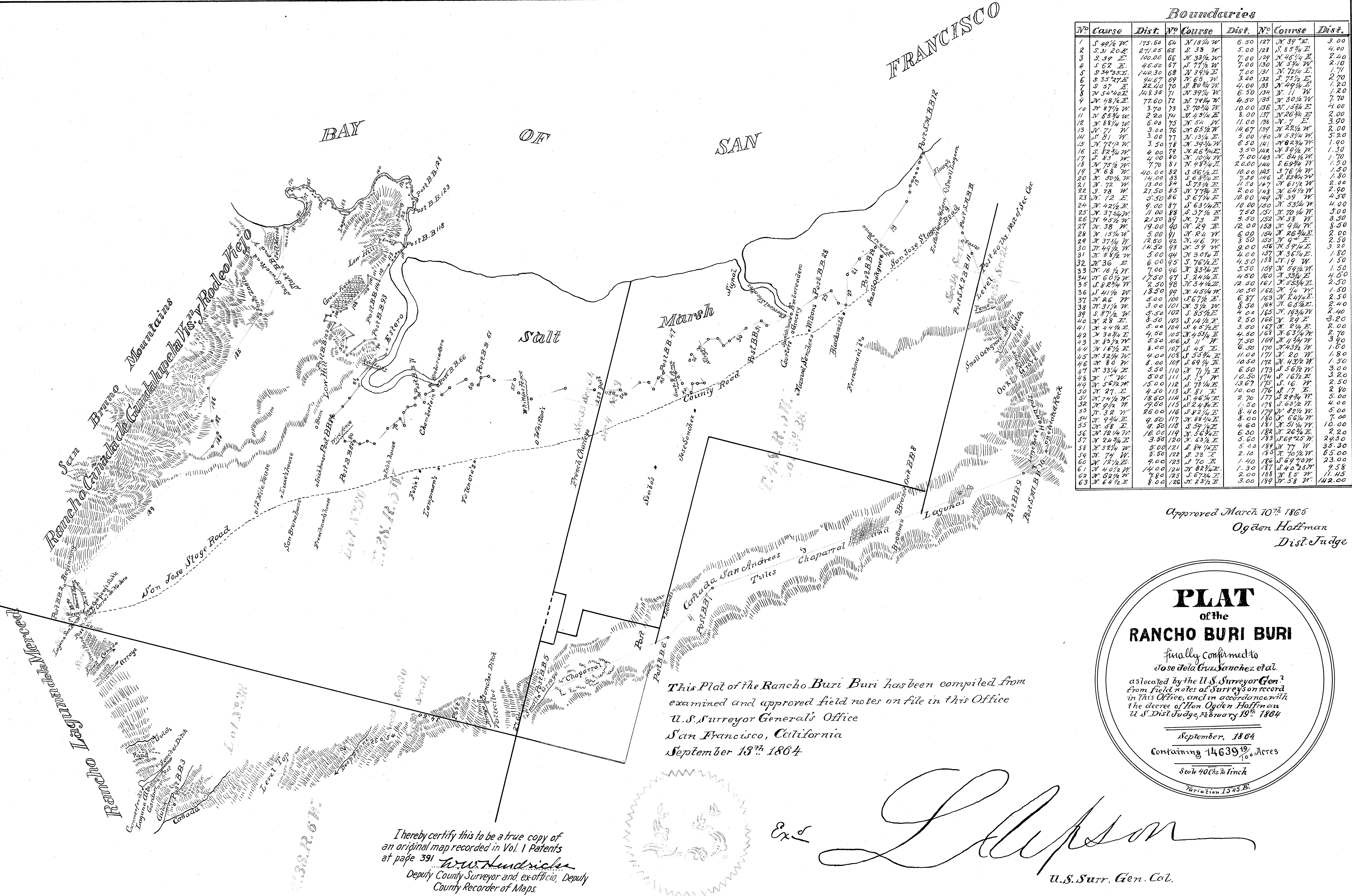 As required by the Land Act of 1851, a claim for Rancho Buri Buri was filed with the Public Land Commission in 1852, and the grant was patented to José de la Cruz Sánchez and siblings in 1872